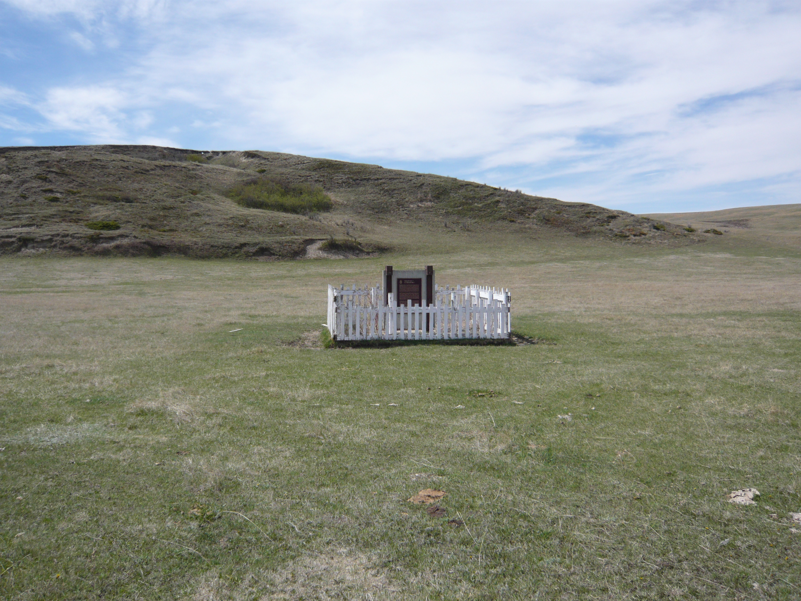 Treaty No. 7 Signing Site National Historic Site of Canada